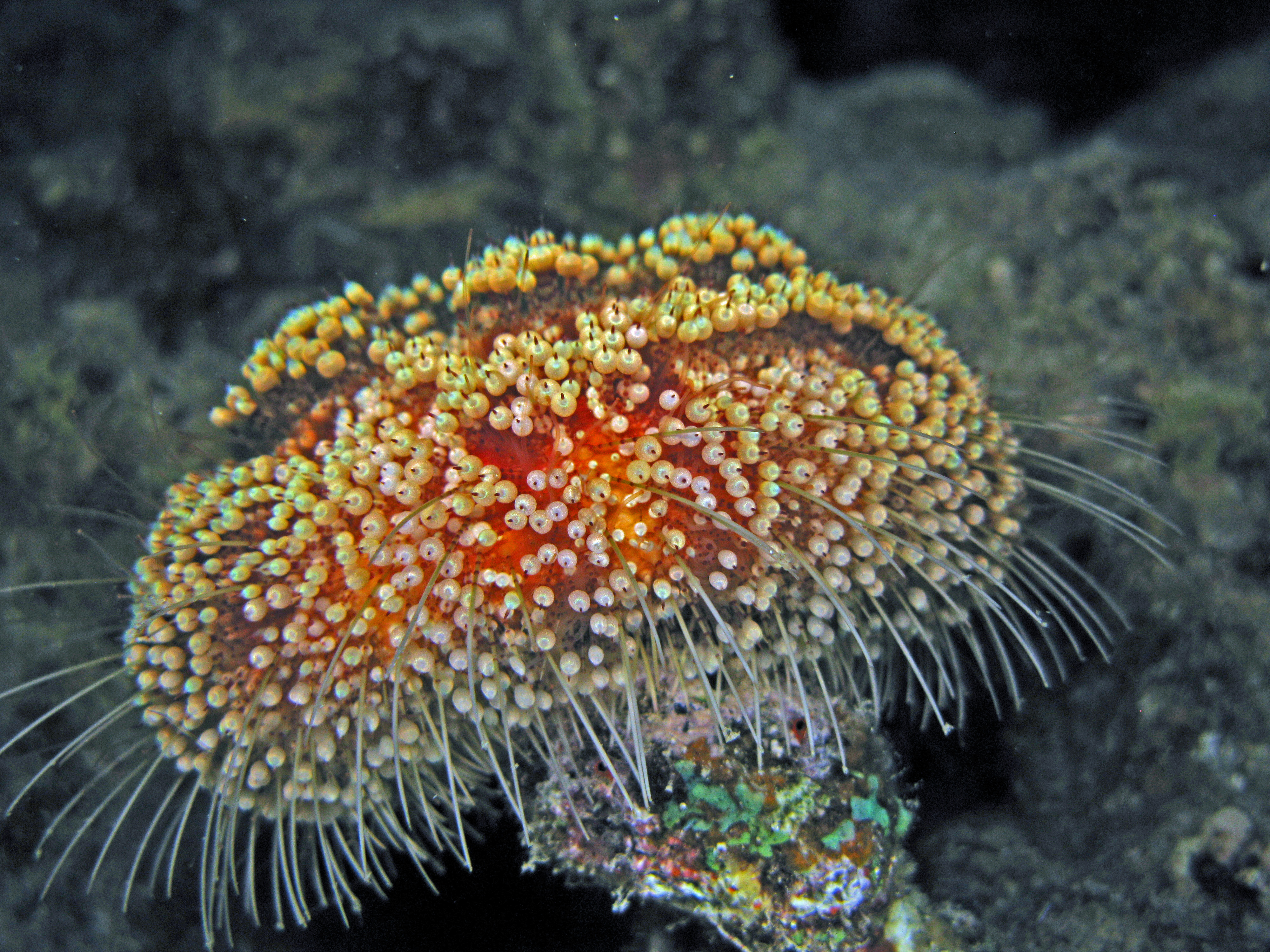 Egypt - Sinai - Dahab Toxic Leather Sea Urchin - Asthenosoma marisrubri